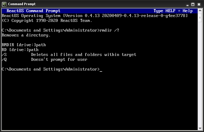 rmdir command on ReactOS-0.4.13